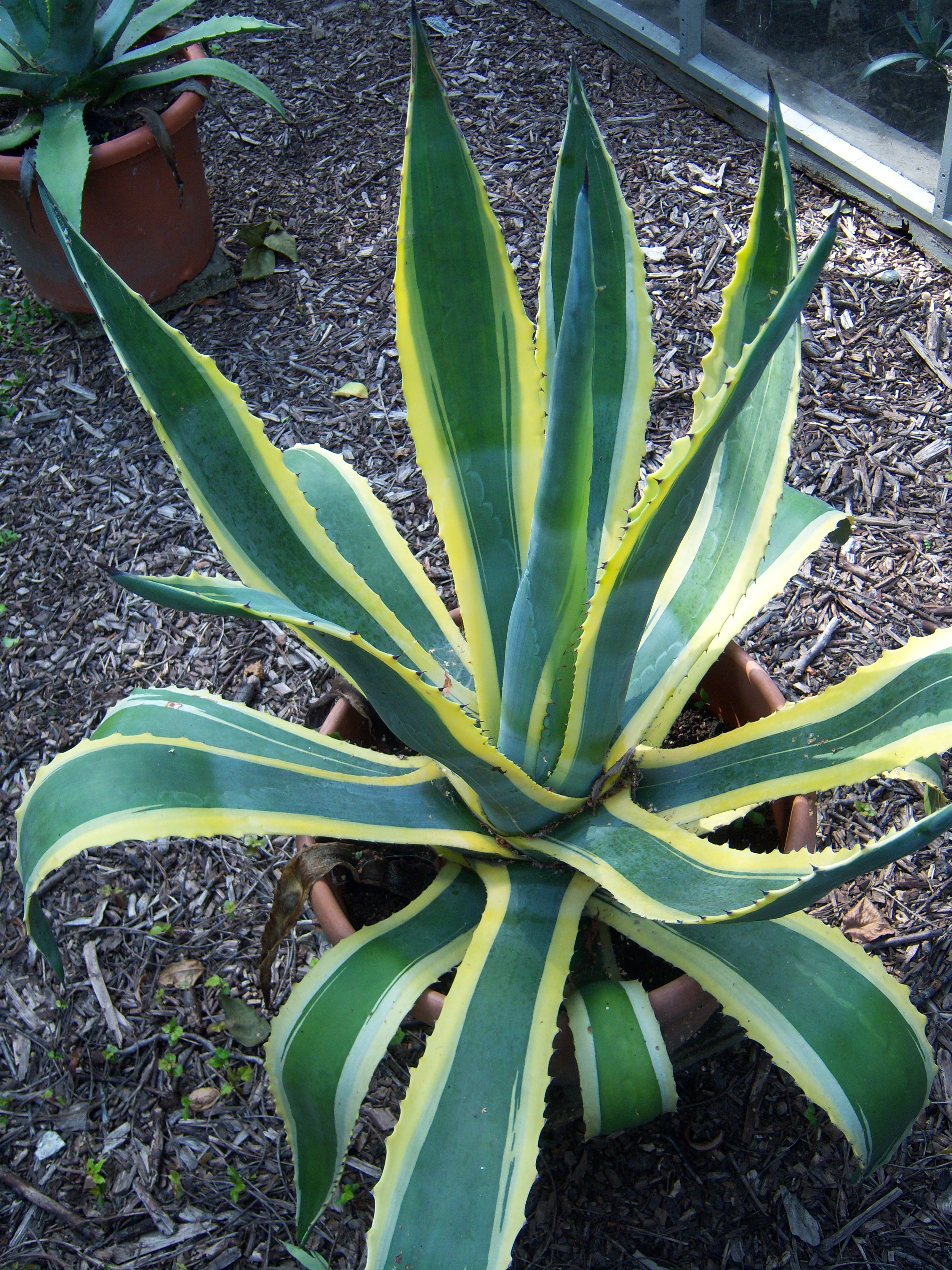 Agave Americana in the Netherlands